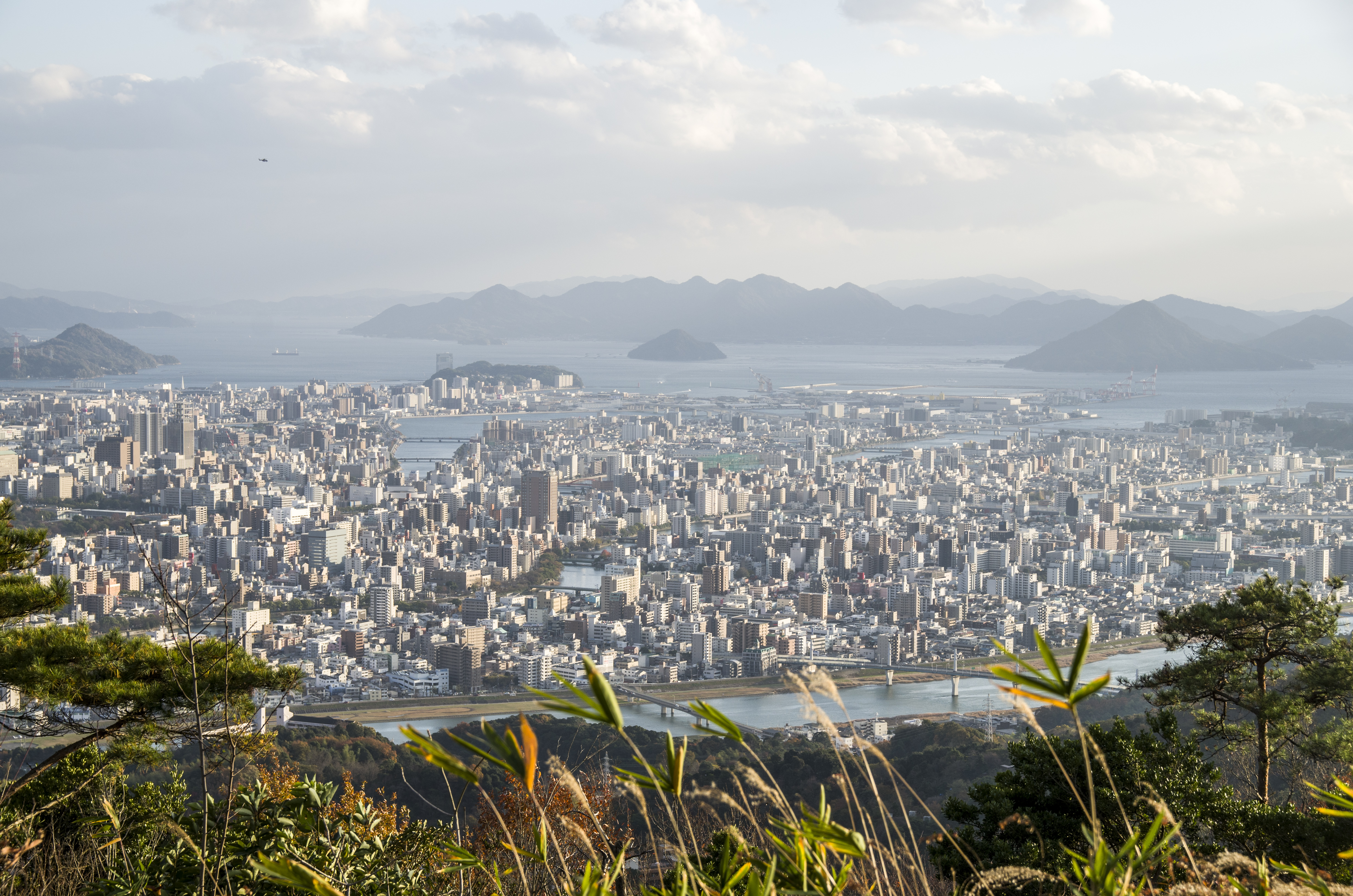 Hiroshima-beautiful view to the city and Inland sea